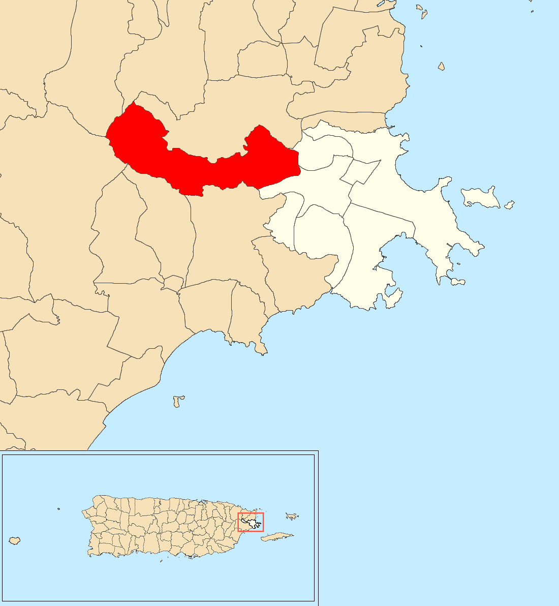 Río Abajo, Ceiba, Puerto Rico locator map